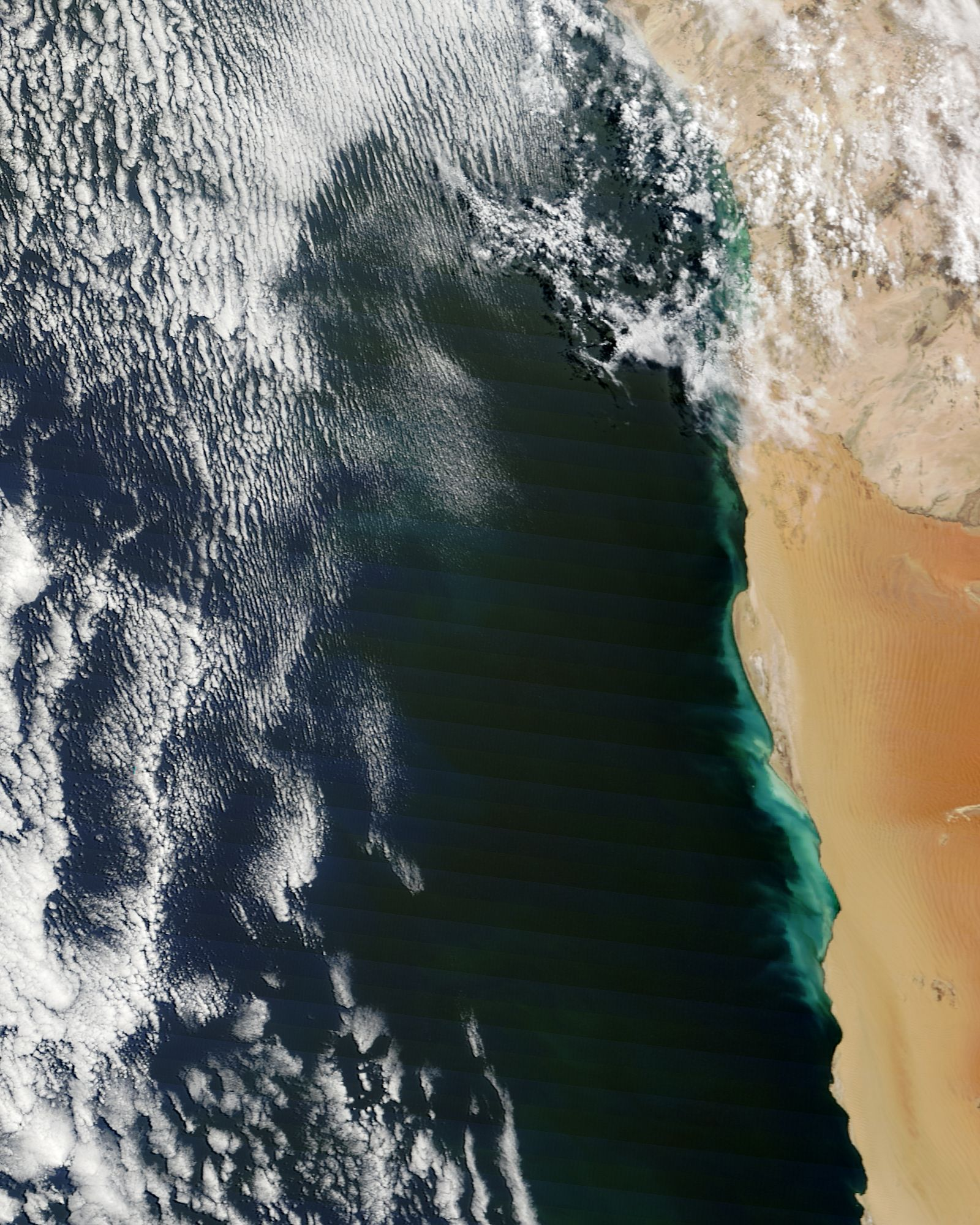 Hydrogen sulfide erupted along the coast of Namibia in mid-March 2010. Pale-hued waters along the shore hinted at gaseous rumblings as the Moderate Resolution Imaging Spectroradiometer (MODIS) on NASA’s Terra satellite passed overhead and captured this true-color image on March 13, 2010. Although ocean water appears navy blue farther from shore, water along the coast ranges in color from peacock green to off-white. Ocean water wells up in this area along the continental shelf. The milky surface waters that coincide with gaseous eruptions along Namabia’s coast have a low oxygen content. As reported in a 2009 study, the frequent hydrogen sulfide emissions in this area result form a combination of factors: ocean-current delivery of oxygen-poor water from the north, oxygen-depleting demands of biological and chemical processes in the local water column, and carbon-rich organic sediments under the water column. Commercially important fish species have hatching grounds along the Namibian coast, and hydrogen sulfide eruptions can often kill large numbers of fish. In addition, the gas eruptions send a noxious rotten-egg smell inland. These events bring some benefits, however. Sea birds eat the fish carcasses, and humans can make meals of lobsters fleeing onshore to escape the oxygen-deprived waters. Inland, this MODIS image shows the rippling sand dunes of the Namib Desert, which stretches for hundreds of kilometers along the southern African coast.